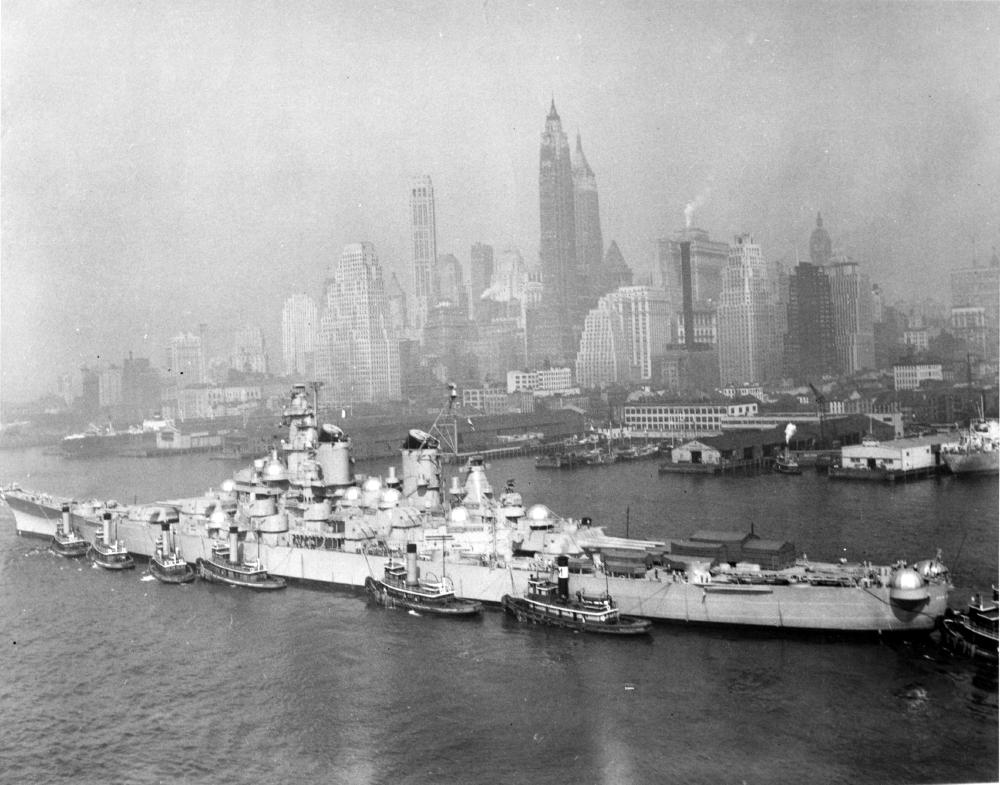 The U.S. Navy battleship New Jersey (BB-62) is seen in early 1948 being moved from the New York Navy Yard to the New York Group, Atlantic Reserve Fleet based at Bayonne, New Jersey. The ship was inactivated at New York Navy Yard, beginning on 18 October 1947 and was formally decommissioned at Bayonne on 30 June 1948.